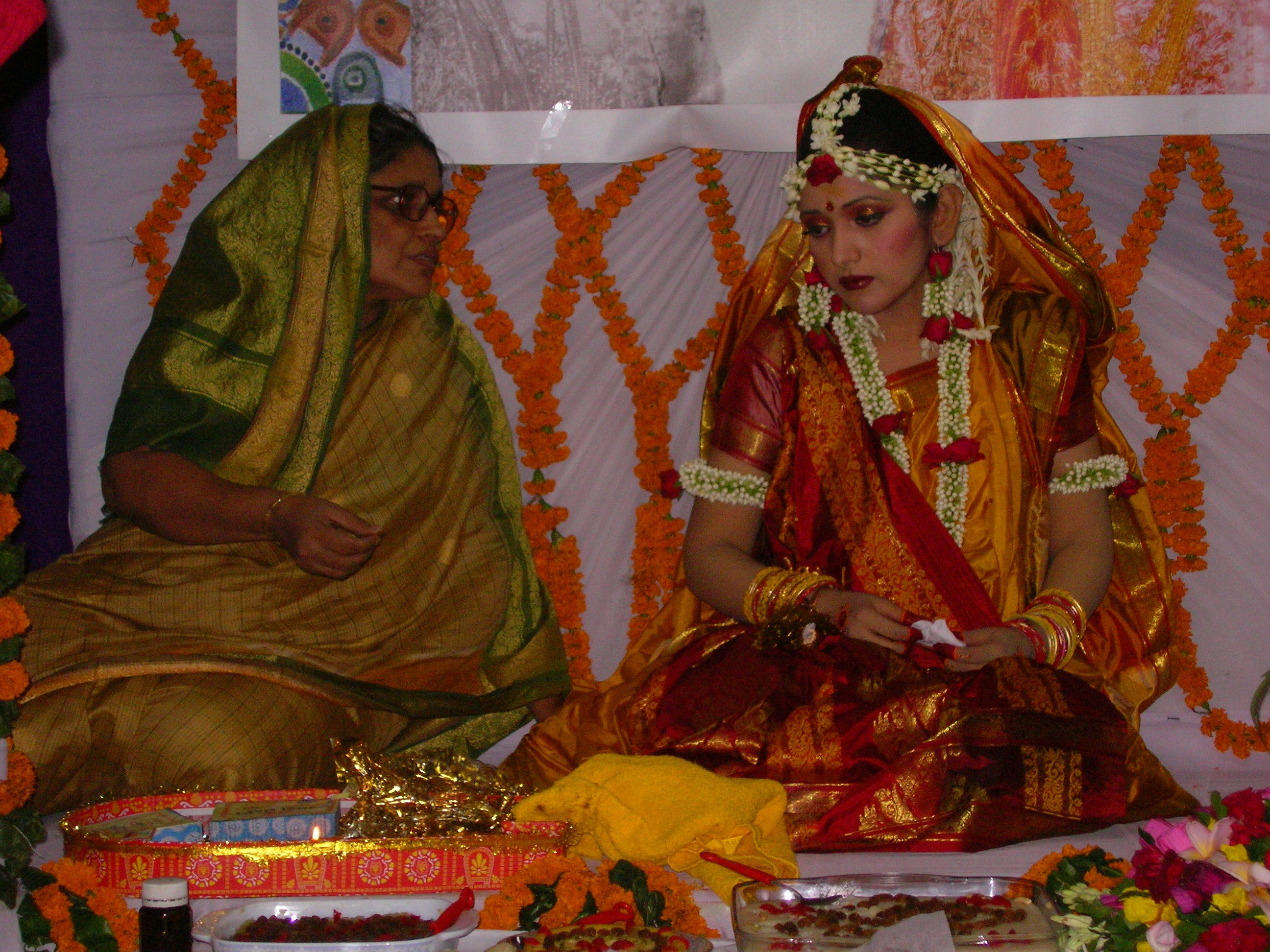 The owner of this file is Arman Aziz; uploaded the picture with permission of the bride.